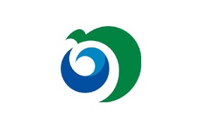 Flag of Noshiro Akita